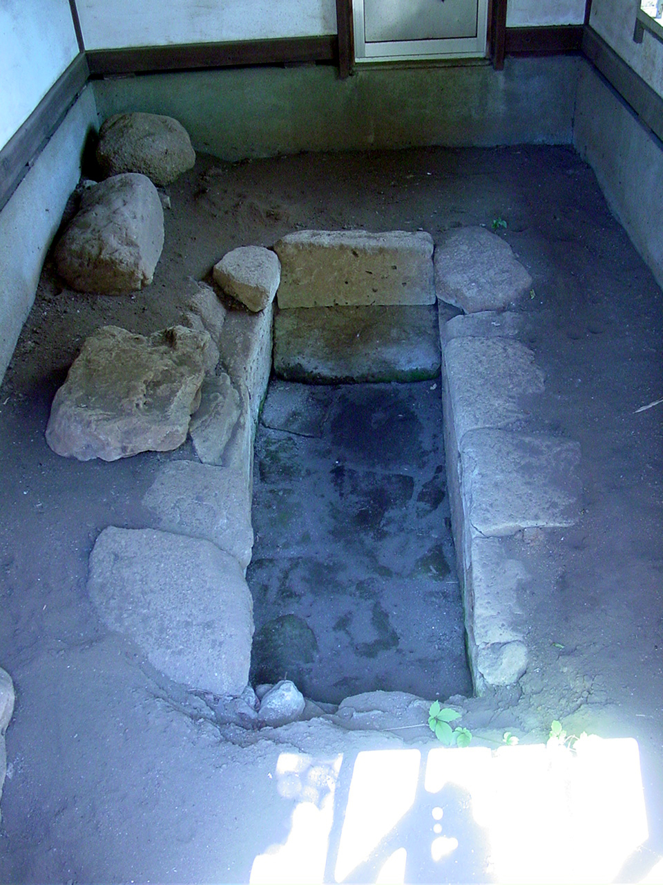 Stone Coffin of Saginuma B Tomb